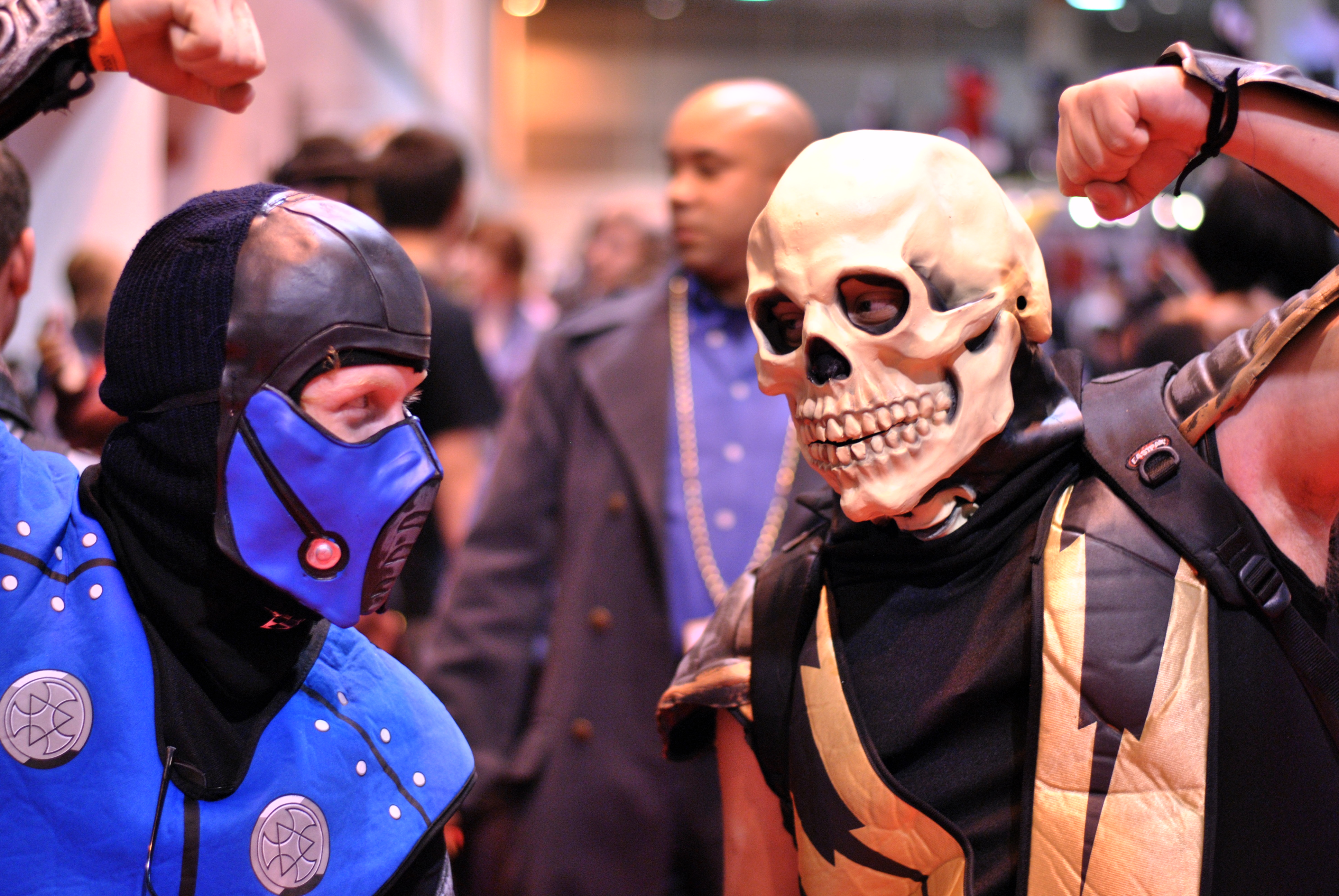 Costumers at New Orleans Comic Con